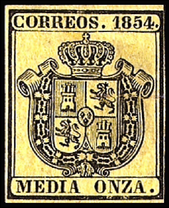 Official postage stamp of Spain, ½ onza, 1854, scott#O1